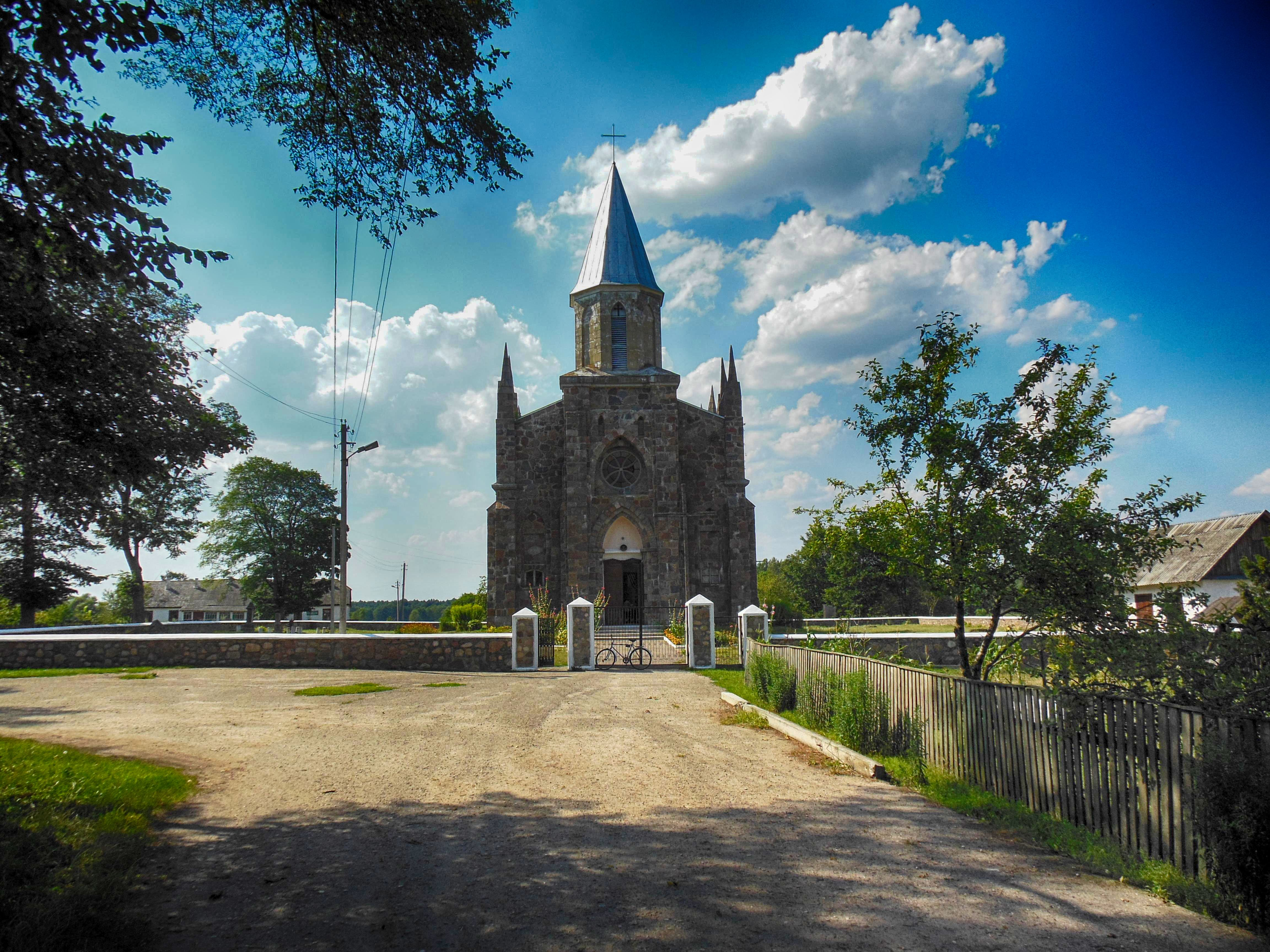 Our Lady of the Rosary church in Pieski, Belarus